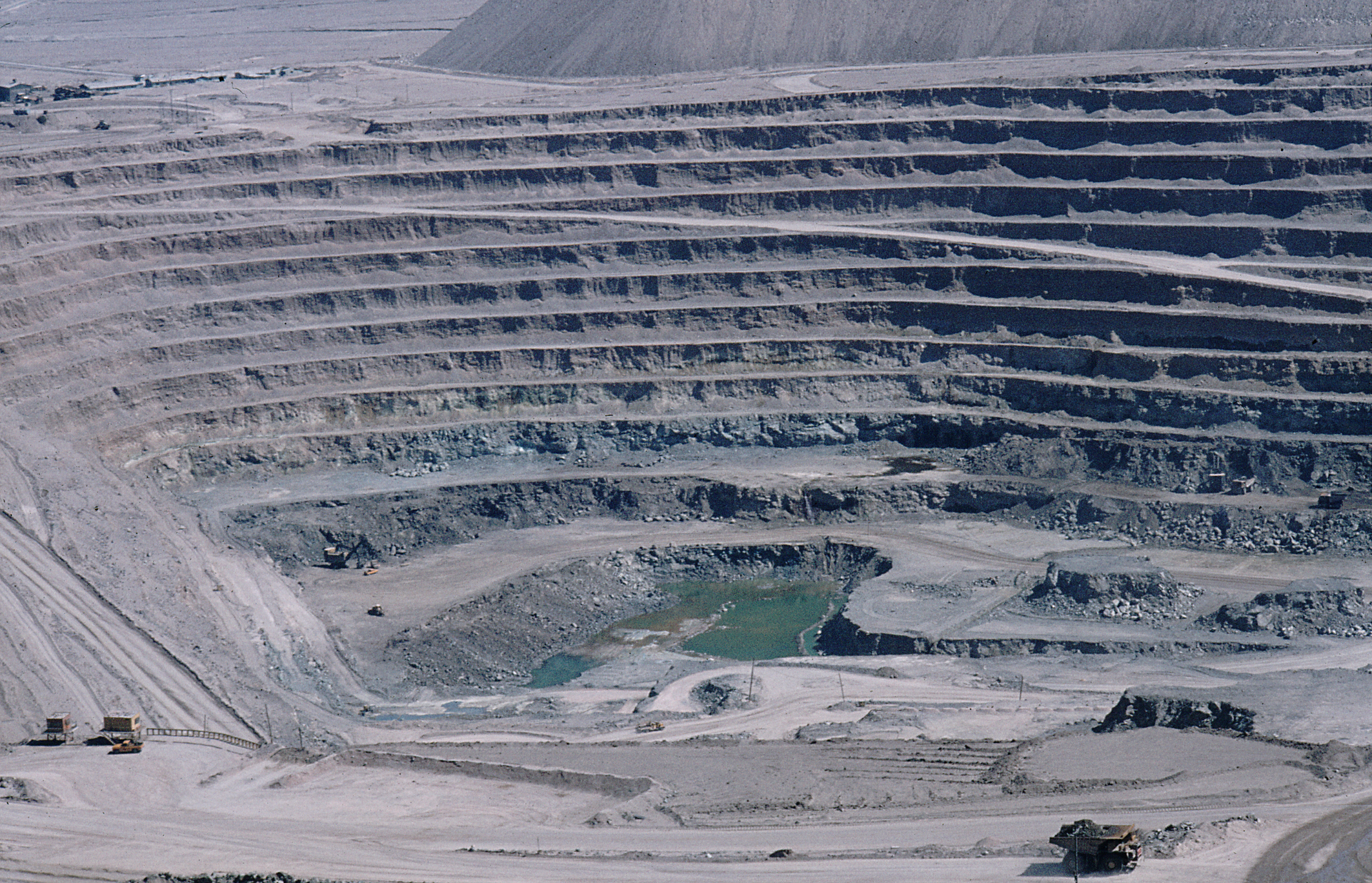 Coppermine Chuquicamata, Chile.